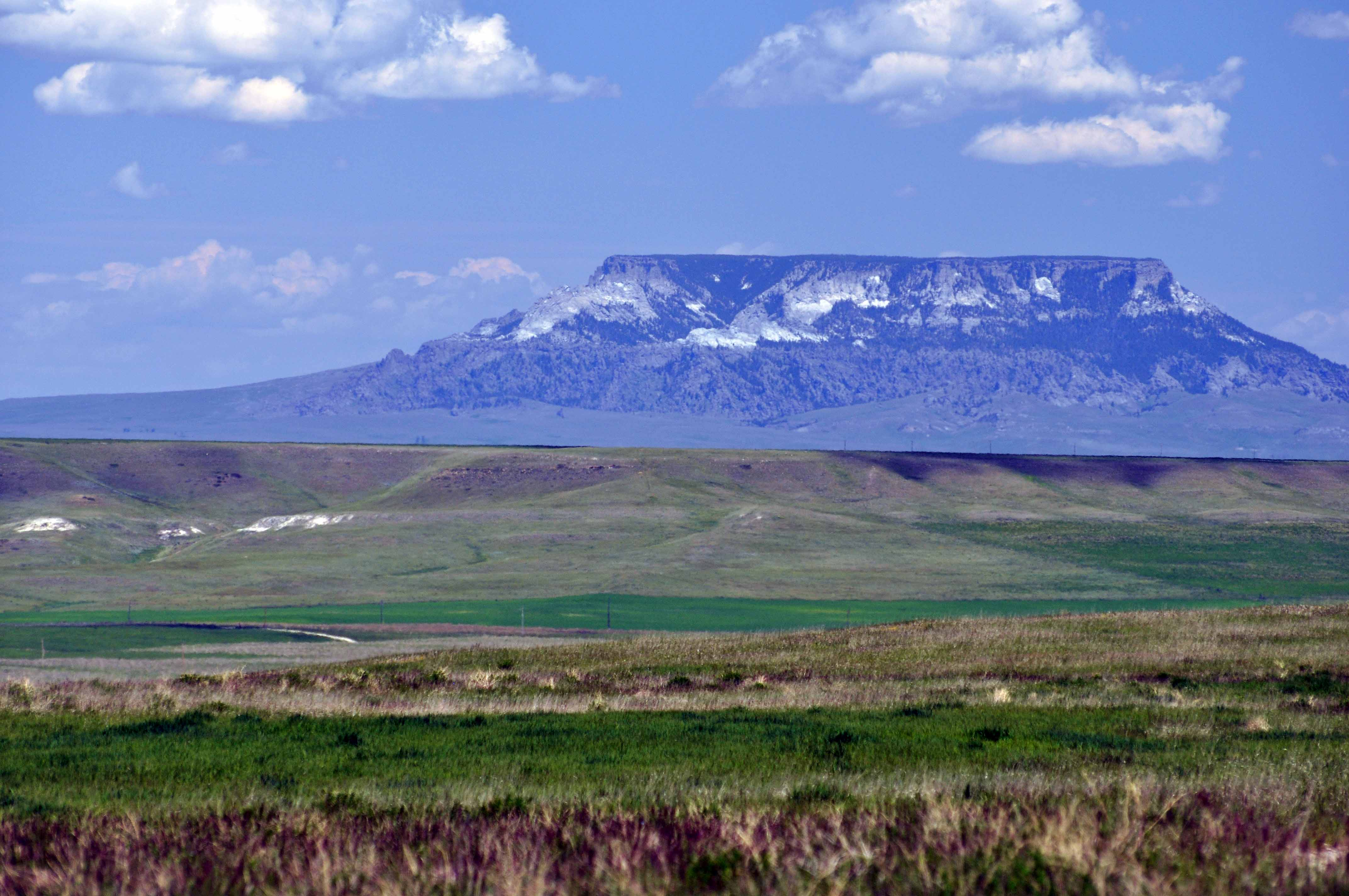 Southeast Face of Highwood Mountains Montana June 6, 2015, Square Butte due east of Highwood Range